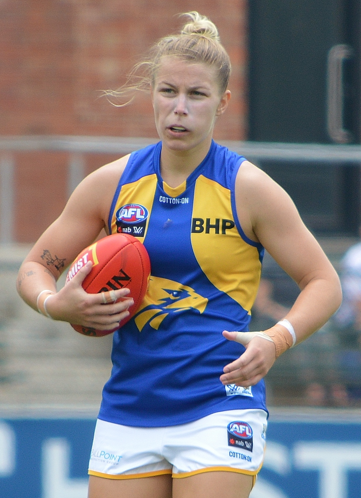 Kellie Gibson with West Coast during a pre-season AFL Women's match against Richmond at Punt Road Oval in January 2020.